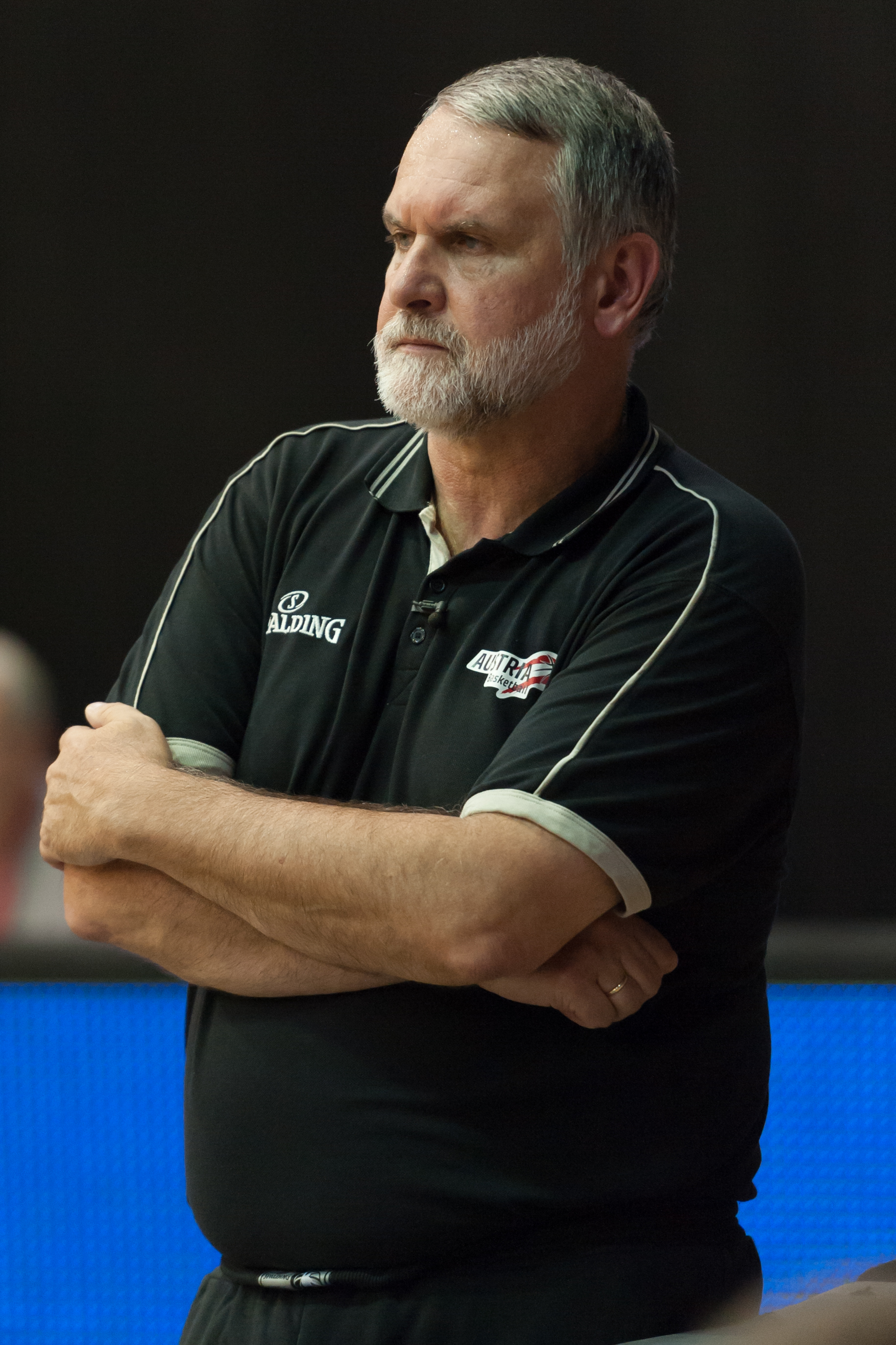 Basketball friendly Austria - Japan, 2015-08-08: Werner Sallomon